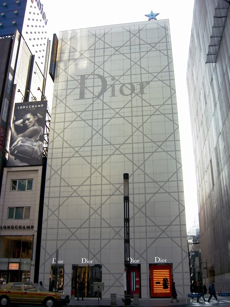 “Christian Dior Store in Ginza”Japan